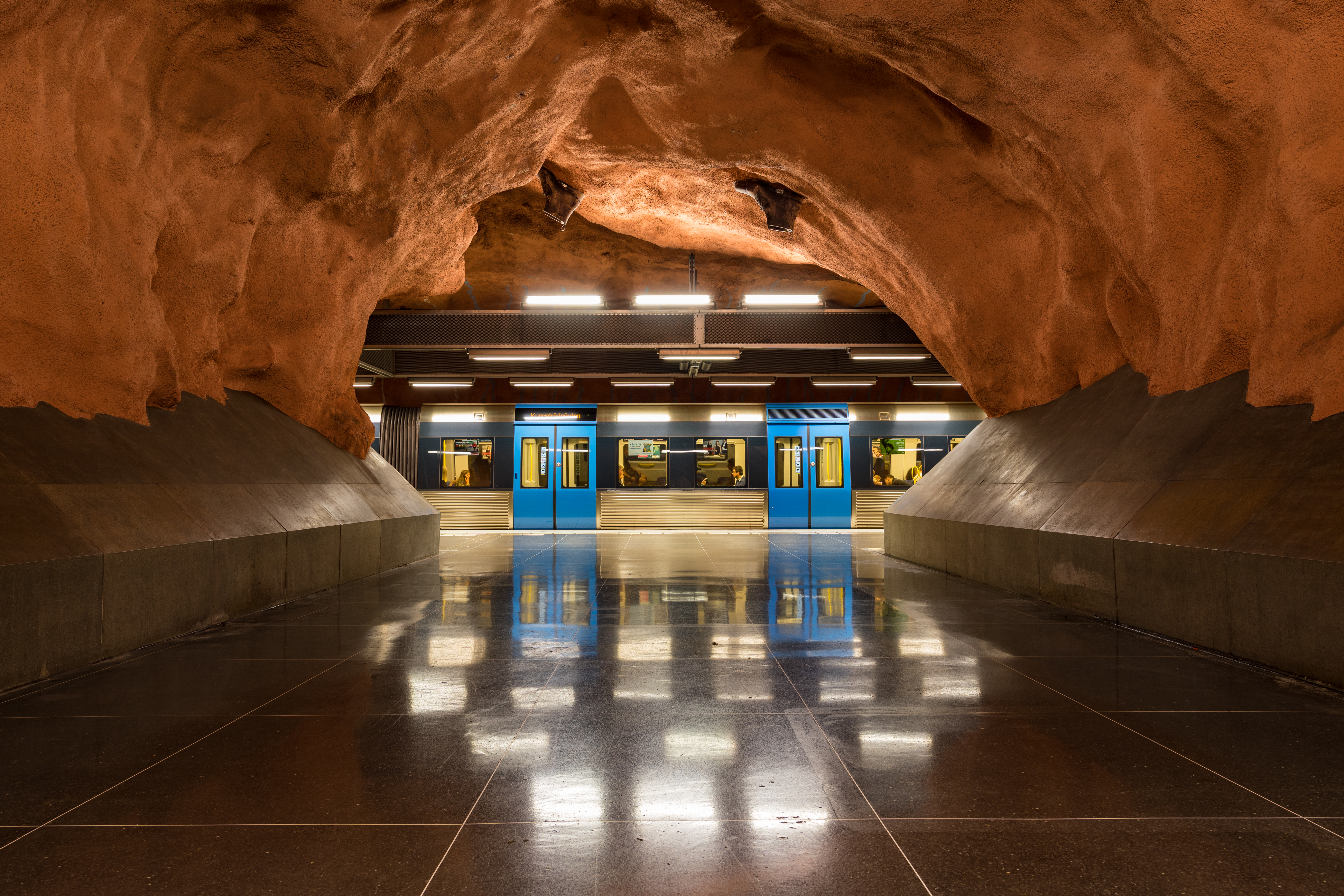 Rådhuset metro station, Stockholm, in August 2019